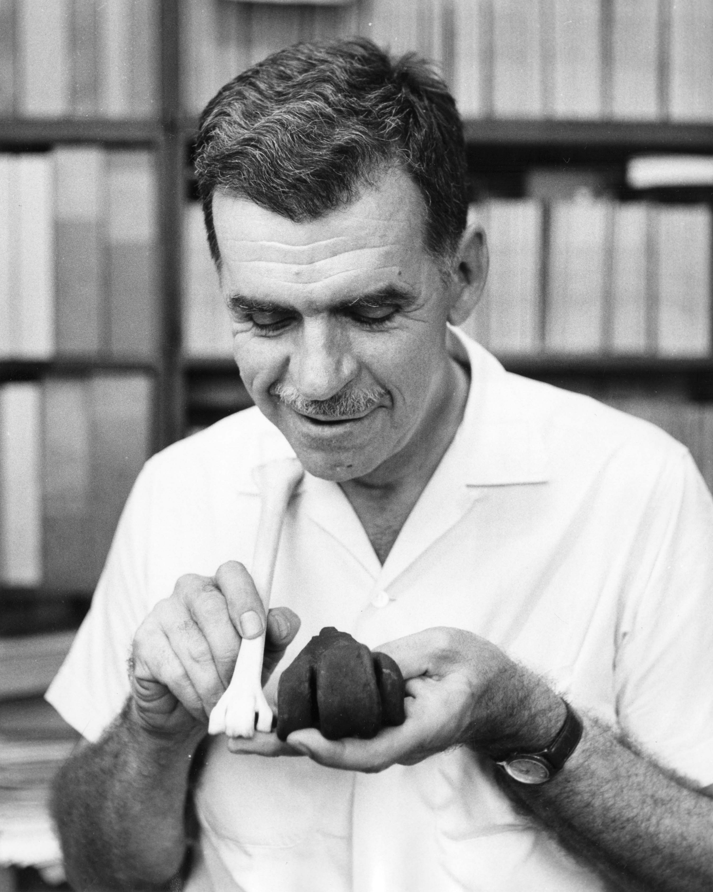 Pierce Brodkorb (1908-1992), University of Florida. He is holding a the tarsometatarsus of the terror bird Titanis (dark) and another bird.